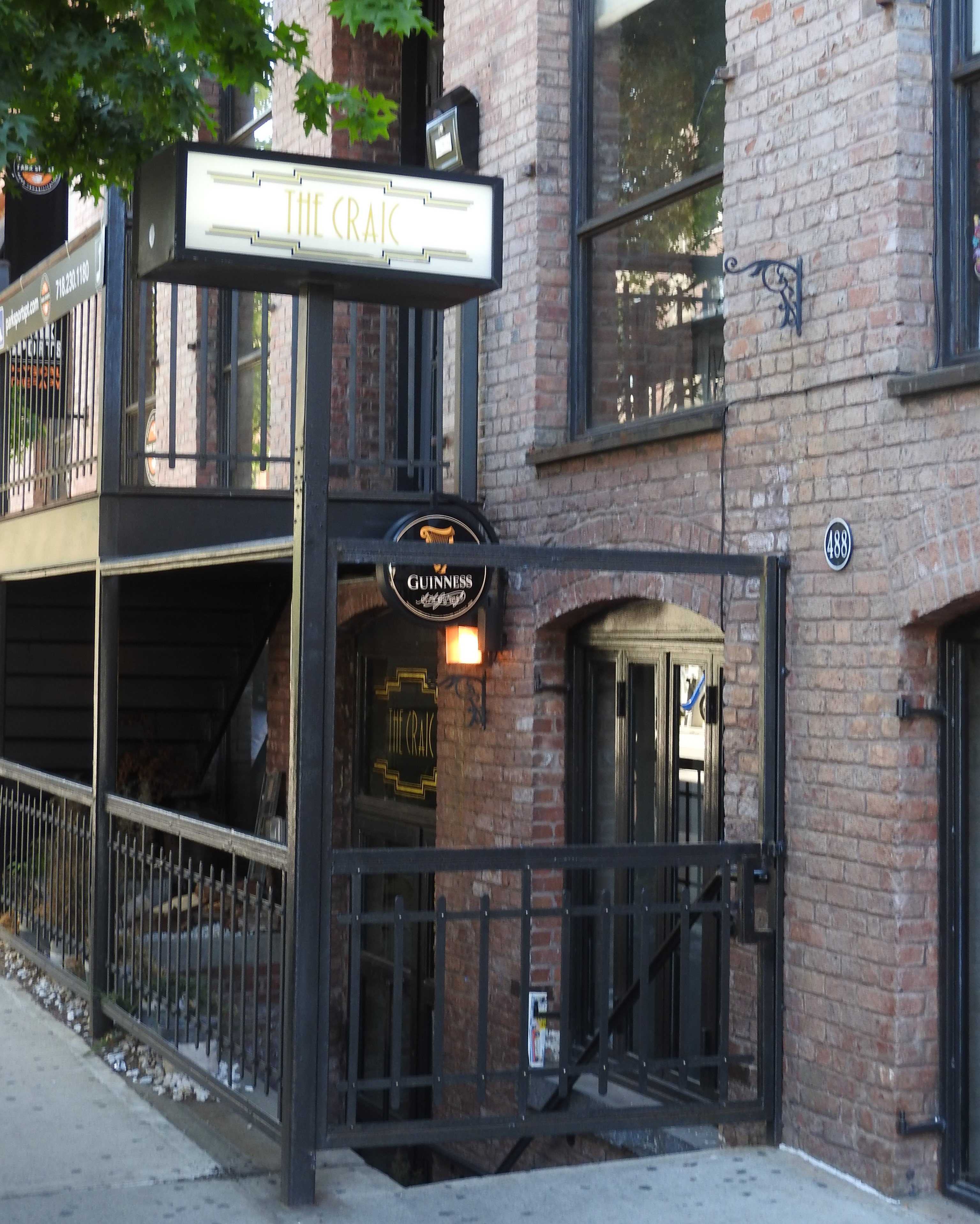 Looking southwest at 488 Driggs Avenue, on Williamsburg on a sunny midday.